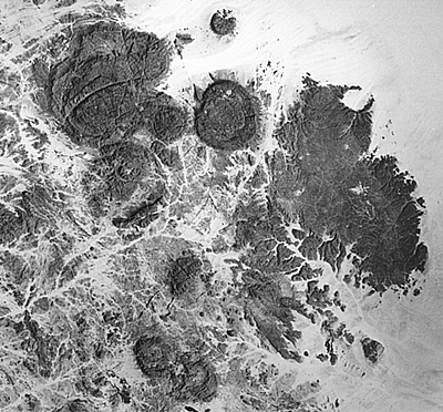 In Africa, Precambrian mountains often stand out in stark relief as topographic highs midst lowlands covered by sand. Such mountains are found in parts of the Sahara Desert. Here are the Aïr Mountains in Niger, consisting of peralkaline granite intrusions which appear dark (unusual since most granitic masses are light-toned in the field).